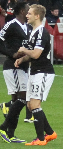 cropped version of image